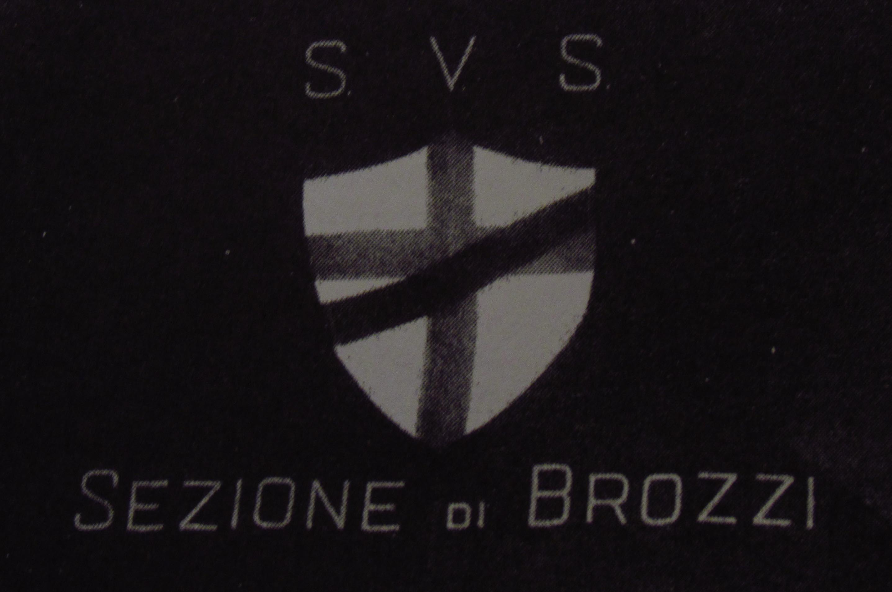 svs flag